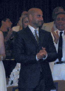 The cast of The Devil Wears Prada: Anne Hathaway, Stanley Tucci, Meryl Streep